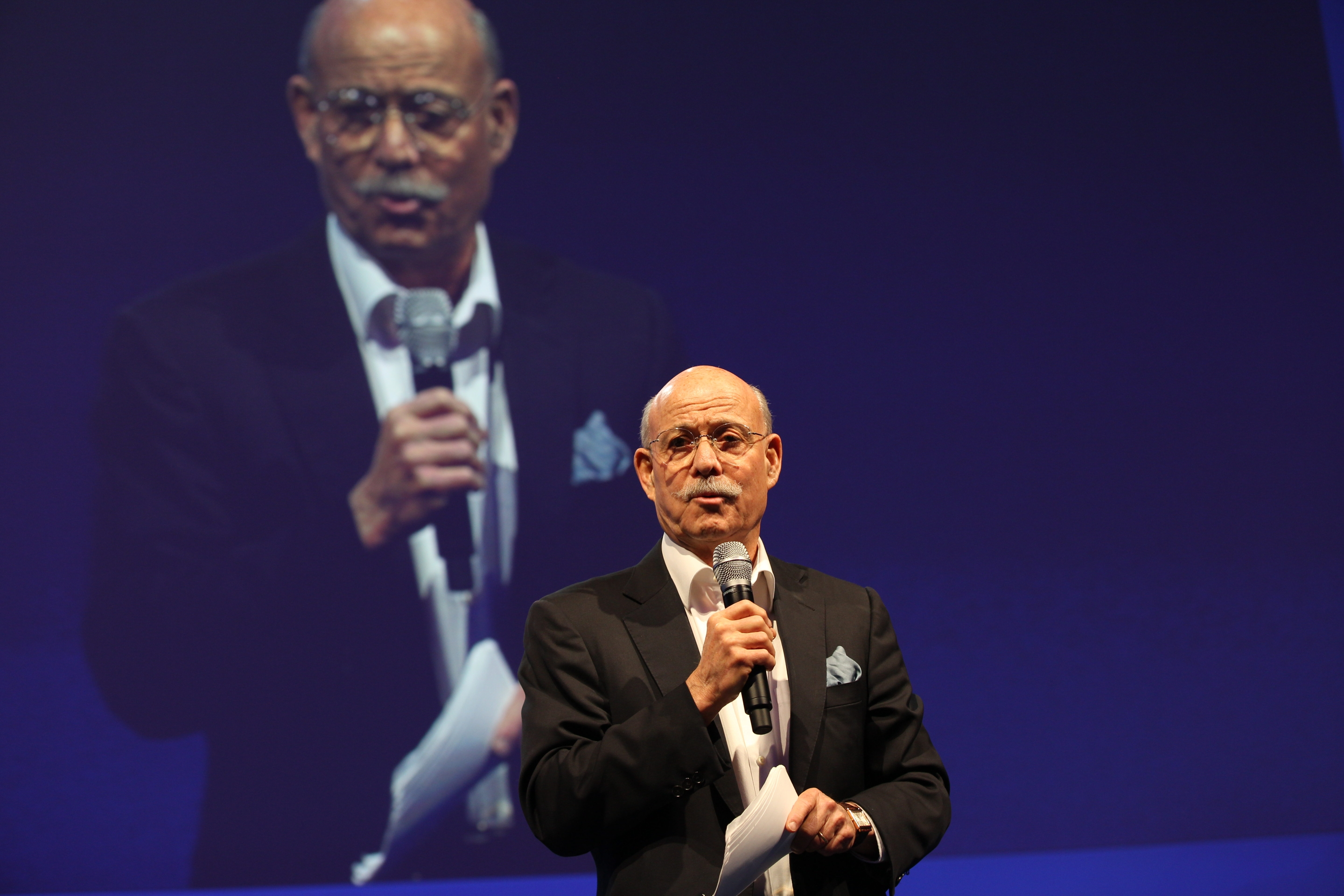 WTTC Global Summit 2016 World Travel & Tourism Council Flickr images